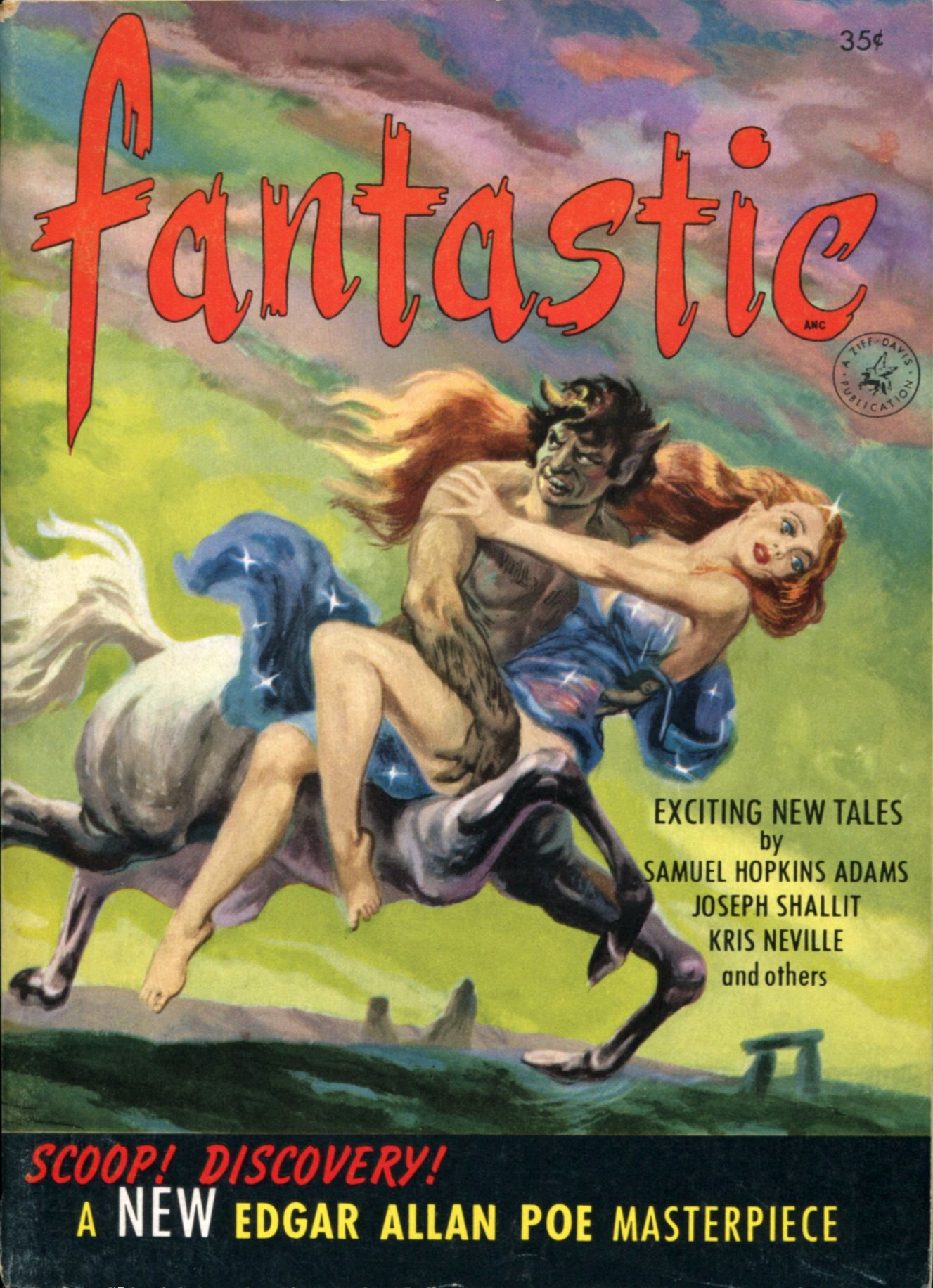 Cover of Fantastic, January-February 1953